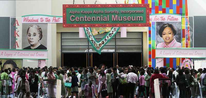 AKA Sorority Centennial Boule.